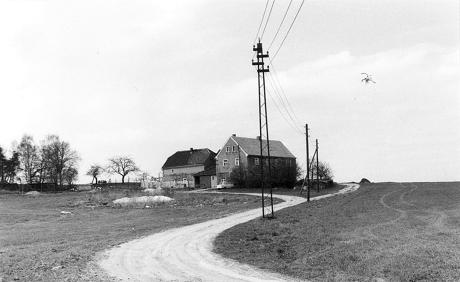 Original image description from the Deutsche FotothekRadibor-Luppa. Ehem. Windmühlengehöft Hornjoserbsce: Něhdyši wětrnikowy dwór pola Łupoje